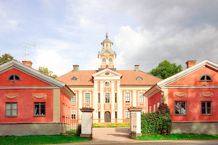 Photographer: Wigulf